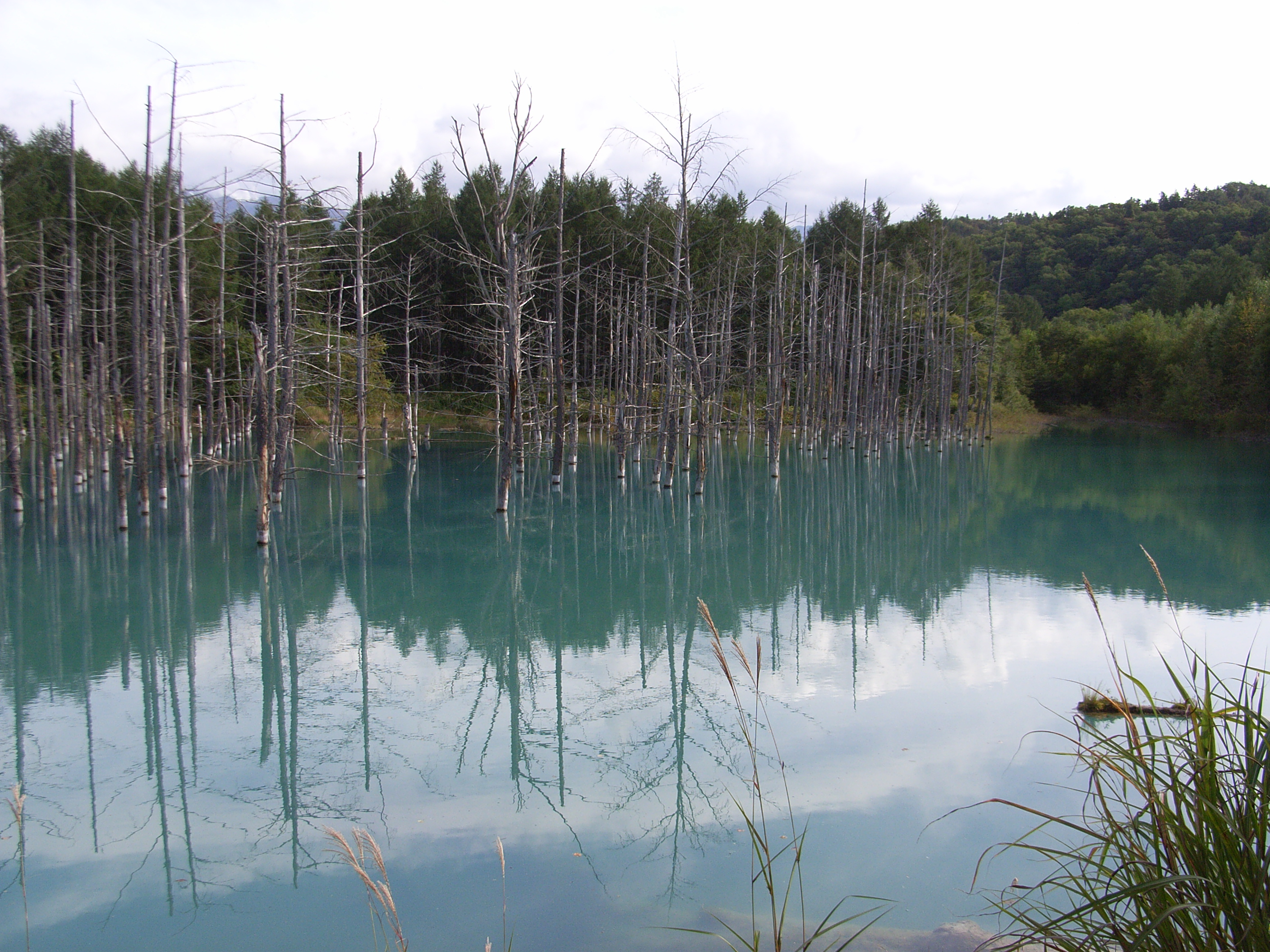 The Blue Pond in Biei Town, Hokkaido, Japan